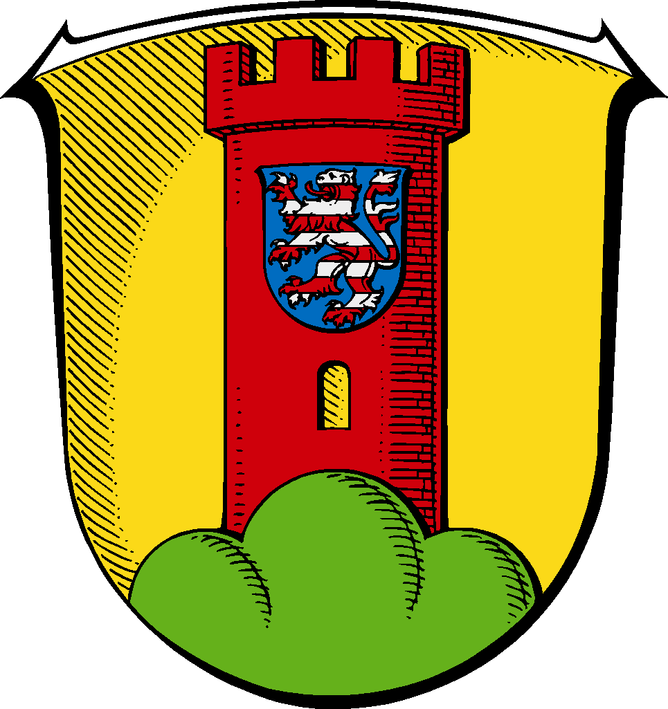 Coat of Arms of Ebsdorfergrund